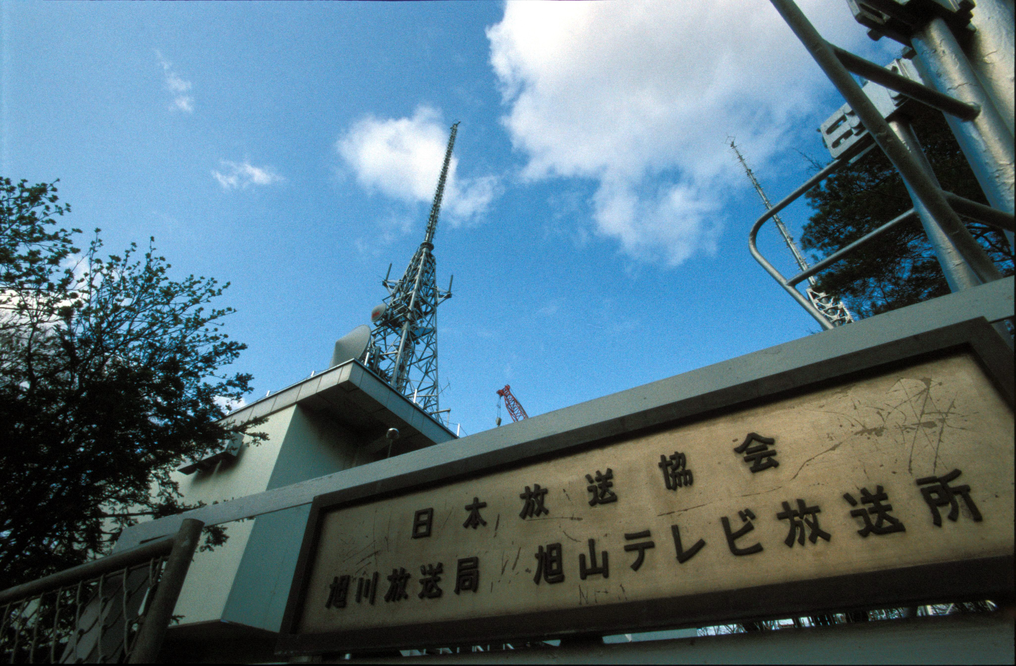 NHK Asahiyama Television Transmitting Station (JOCG-TV and JOCC-TV)